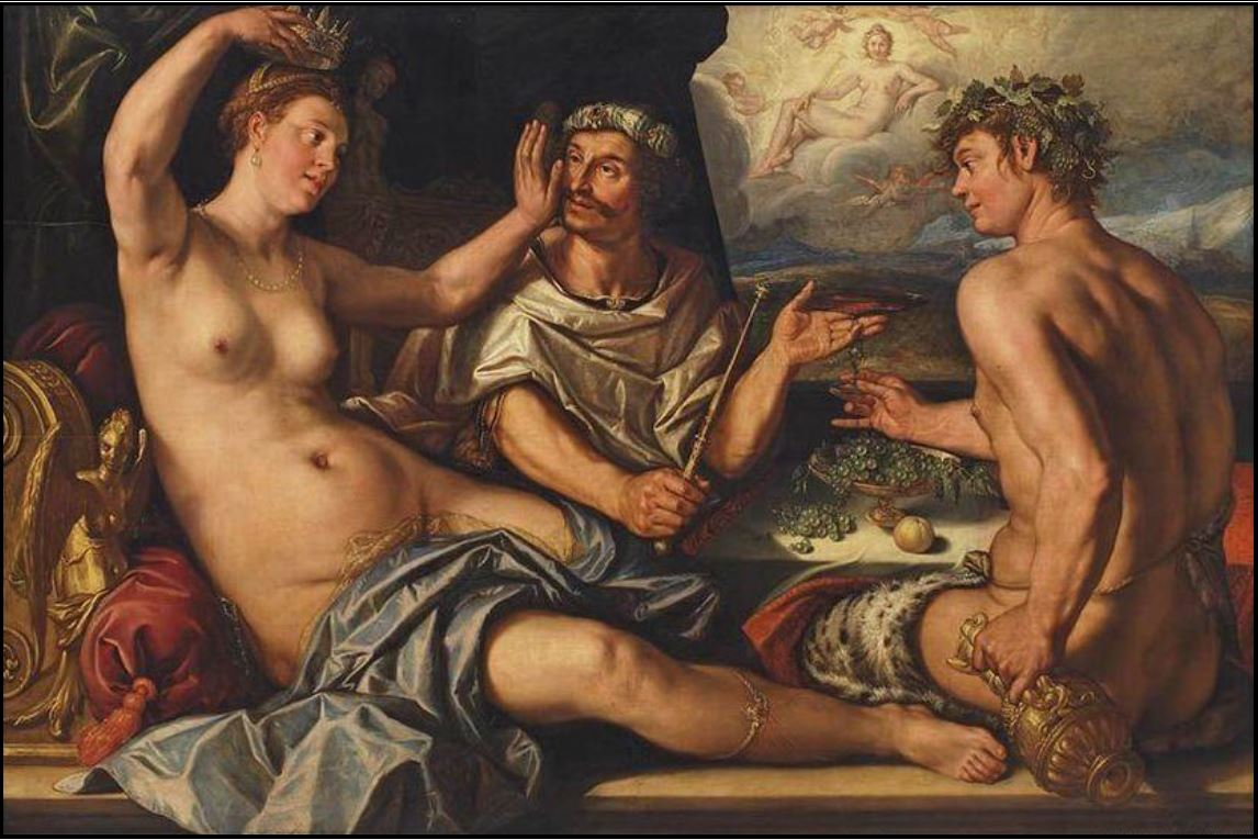 Bacchus is handling the king a goblet, but at the very same moment the king is being slapped on the cheek by his concubine Apame, who has taken off his crown and is placing it on her own head in illustration of 3 Esdras 4:29.